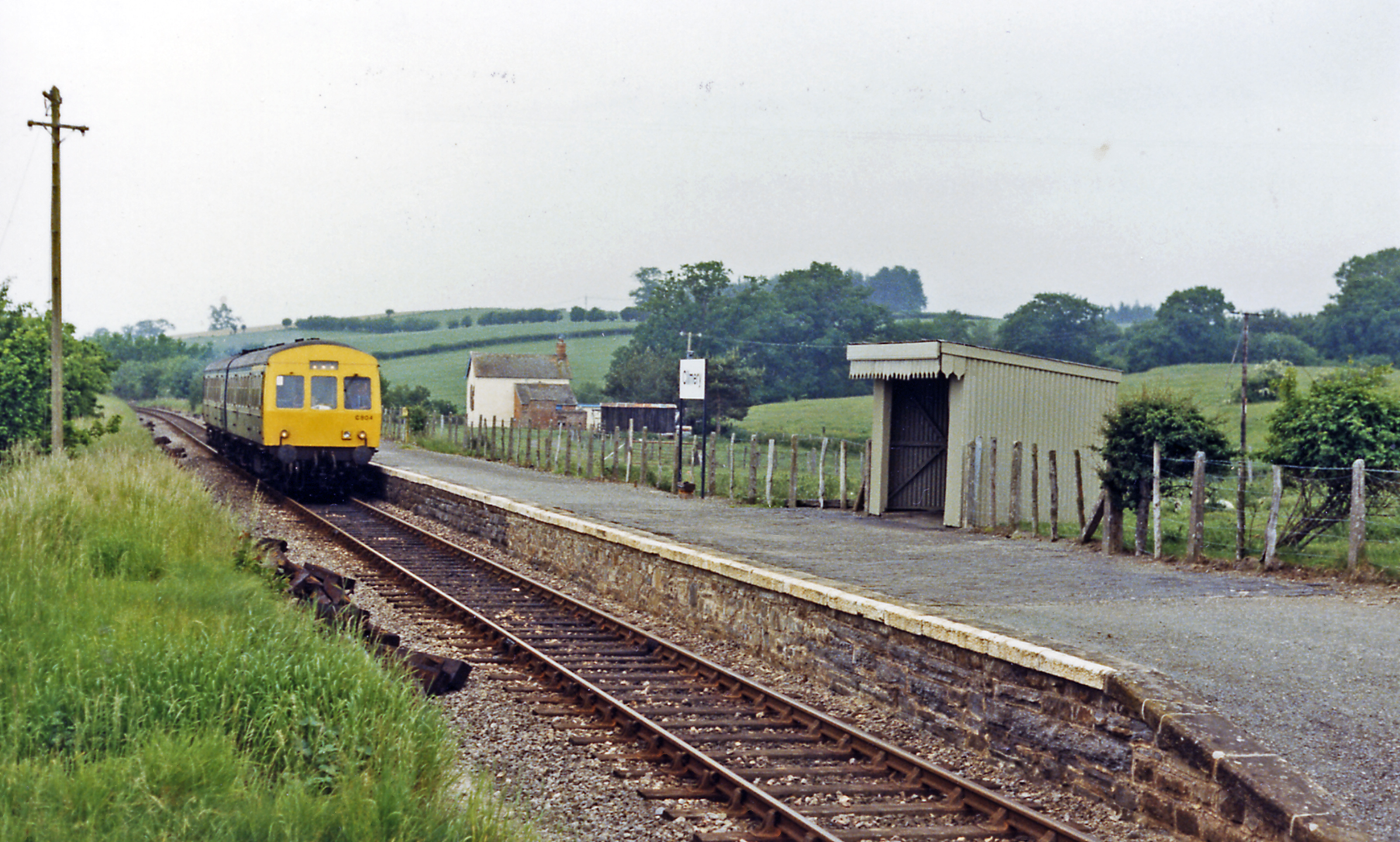 Cilmery Halt, 1986. View westward, towards Llandovery and Swansea/Llanelli: ex-LNW (partly joint with GWR)) Central Wales line, Craven Arms - Llandrindod Wells - Llandovery - Pantyfinnon - Portardulais - Swansea (Victoria). After Pontardulais - Swansea Victoria was closed in 6/64, a limited service was provided up the line from Llanelli: a'vintage' DMU is seen here coming from Llanelli. Miraculously, Cilmery Halt and the route - now called 'The Heart of Wales Line' - survived the Beeching Cut for 'social' reasons and has found a new life.